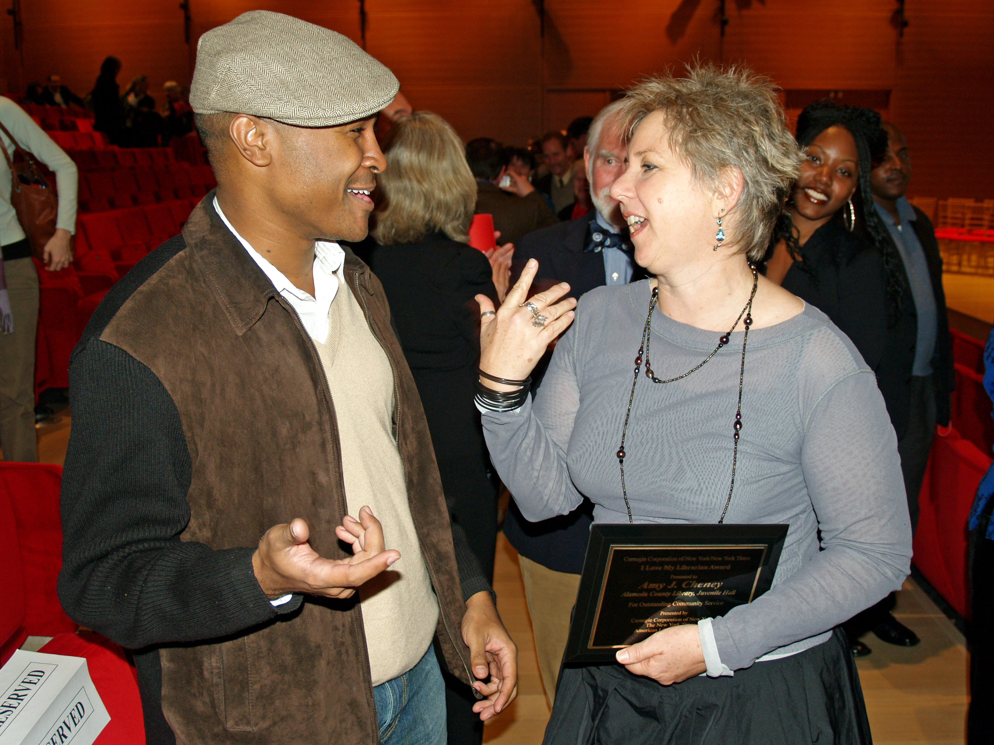 Amy Cheney talks to author Jeff Rivera at the 2008 I Love My Librarian! awards. Cheney was a recipient of the award, which is co-sponsored by the American Library Association, the New York Times and the Carnegie Corporation